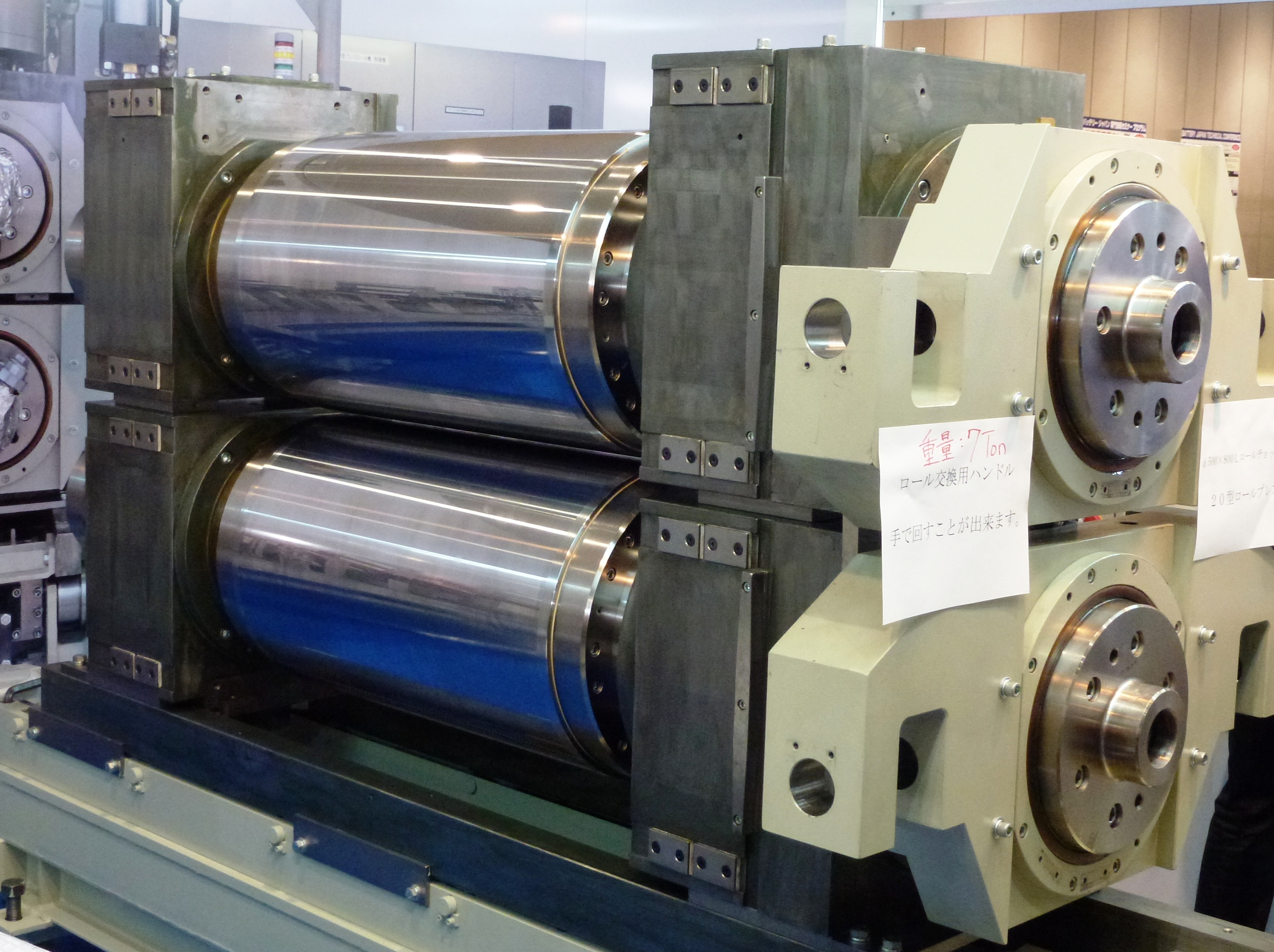 Calander or Pressing Machine for Electrode Pressing in Battery Industry